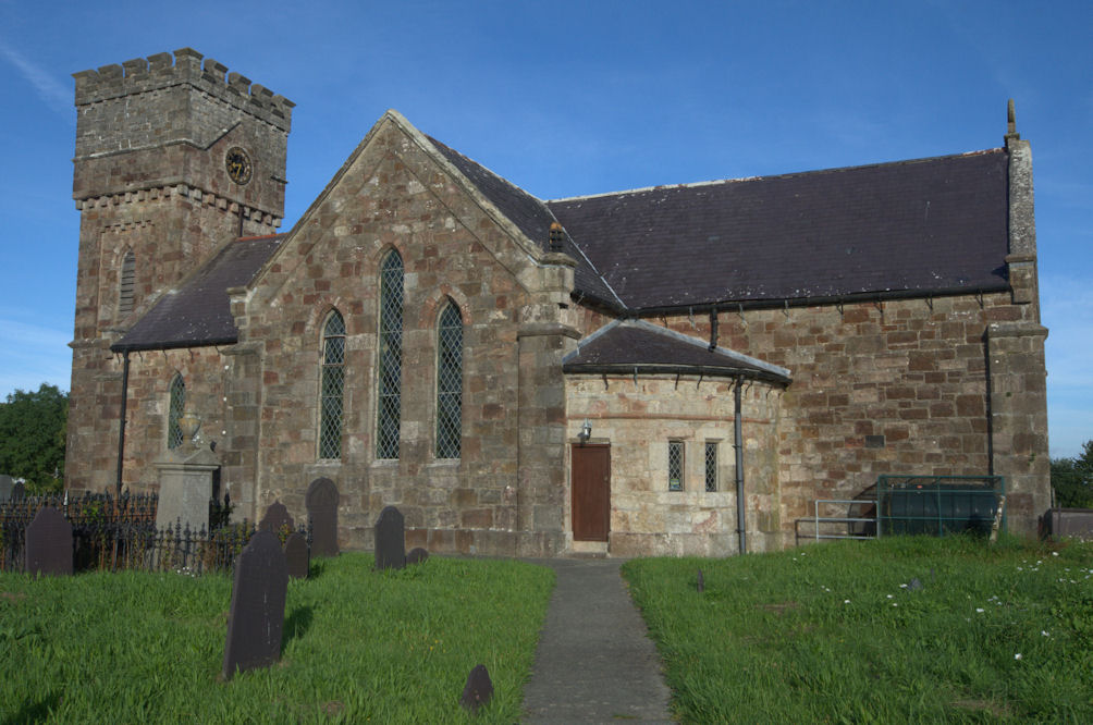 Llanidan Church, near Brynsiencyn